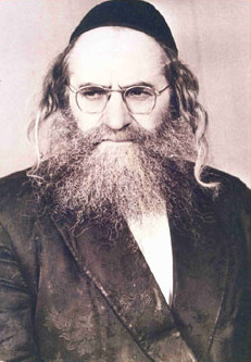 The creator of this work has released it to the public domain (see: Image:Rabash2.jpg) description-portrait of RABASH source URL